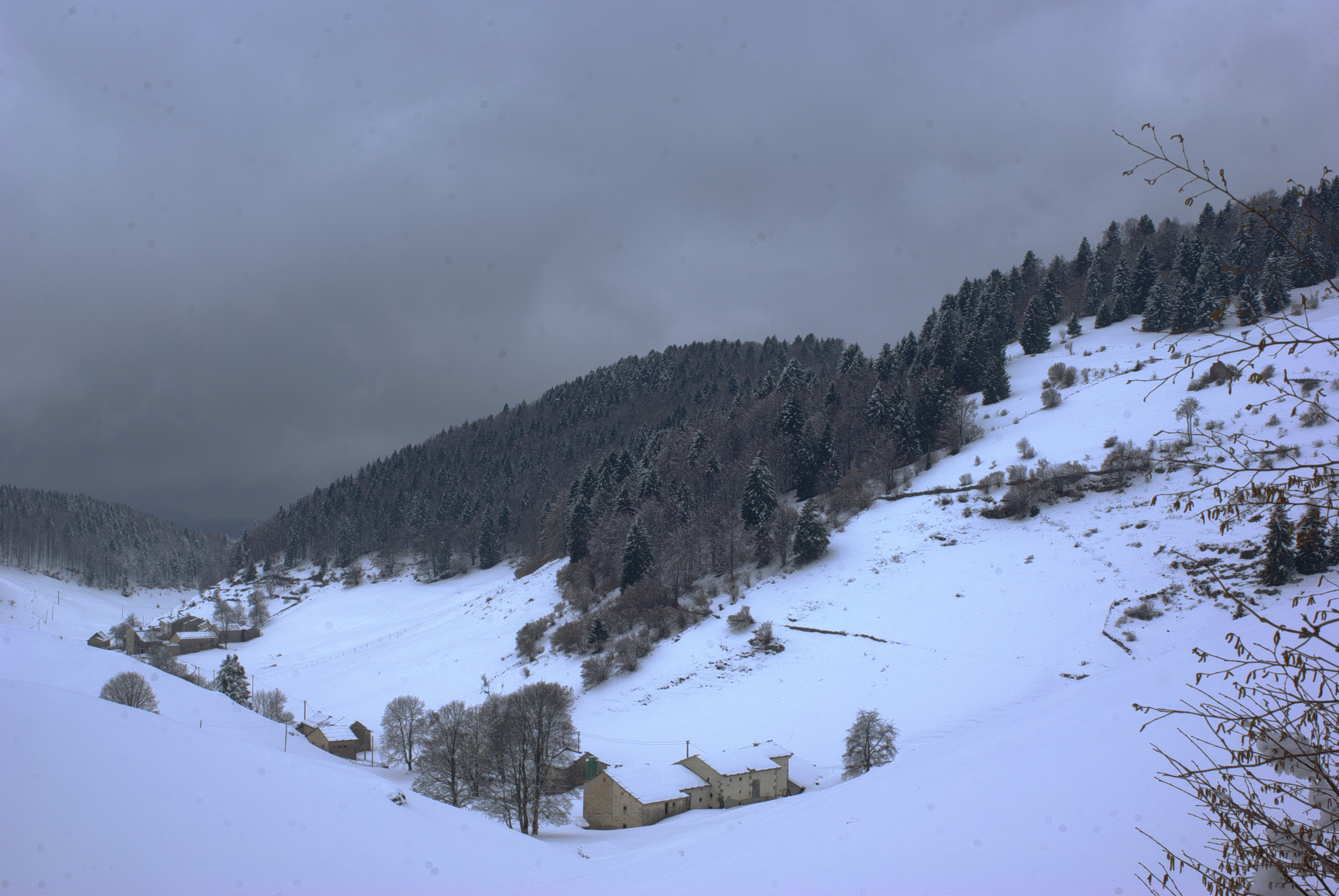 Bosco Chiesanuova (Grietz Dossetti Tinazzo) Lessinia VR Italy 2013-04-01 photo CTG ACA LESSINIA Paolo Villa